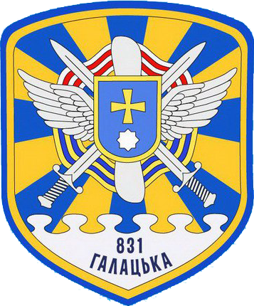 Shoulder sleeve insignia of the Ukrainian Air Force 831st Tactical Aviation Brigade